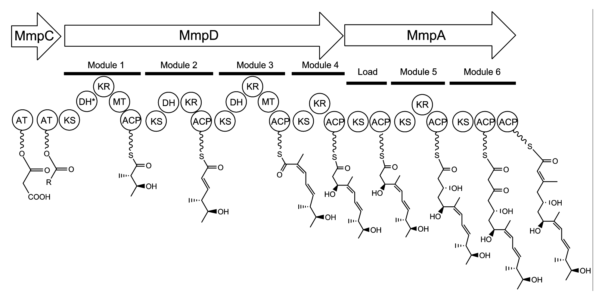 Monic acid biosynthesis AK232